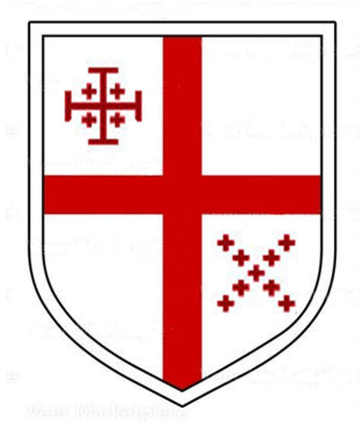 The New Logo of the UECNA, 2016